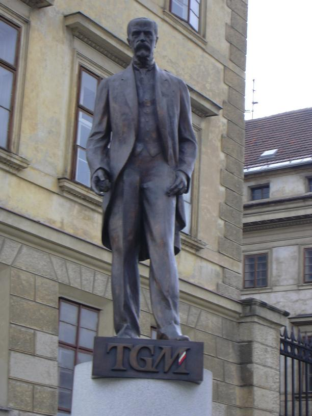 T.G.Masaryk, first president of Czechoslovakia, statue in front of Praha's castle